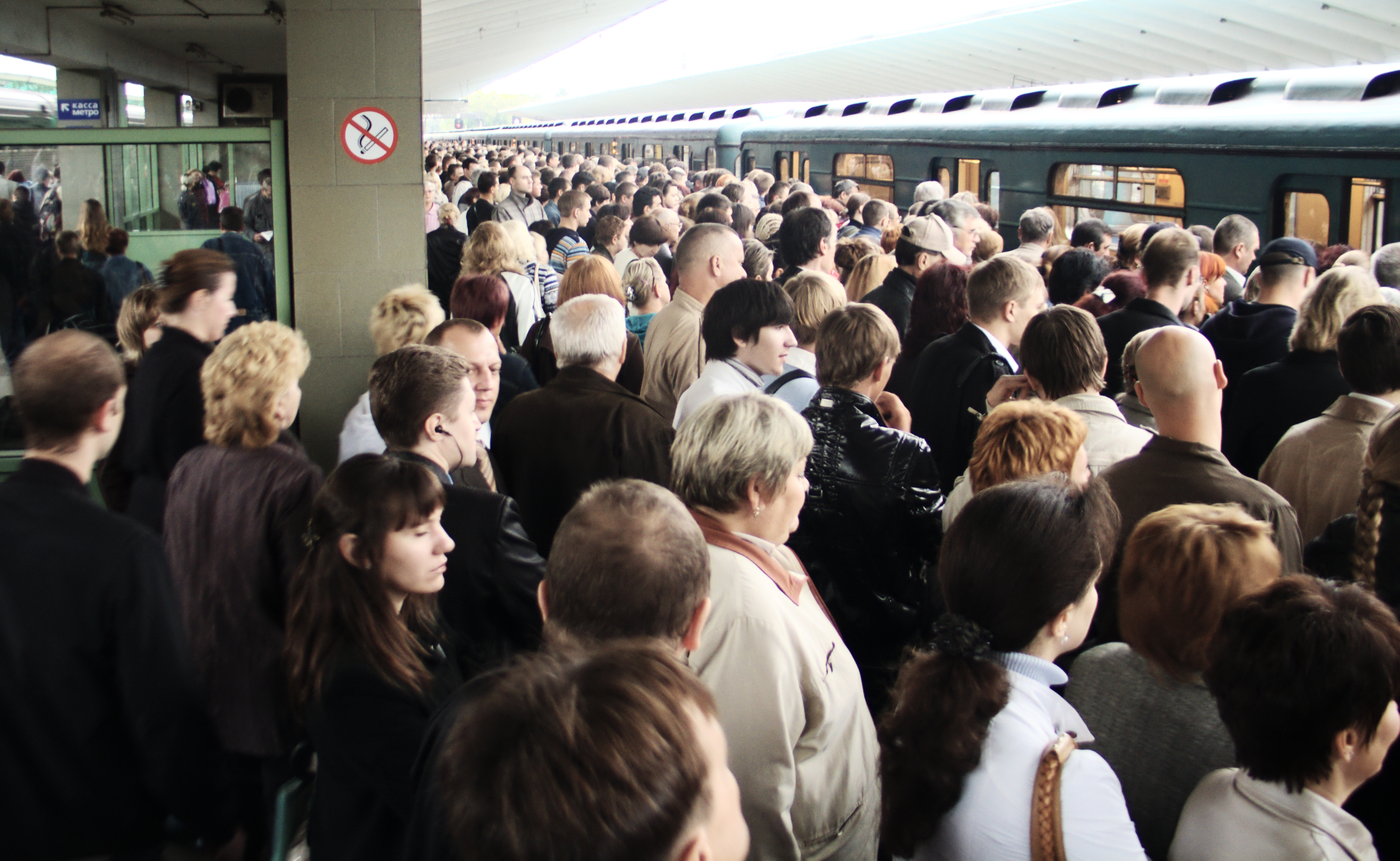 Rush hour at Vyhino, the most overloaded Moscow Metro station. Train to the city center.